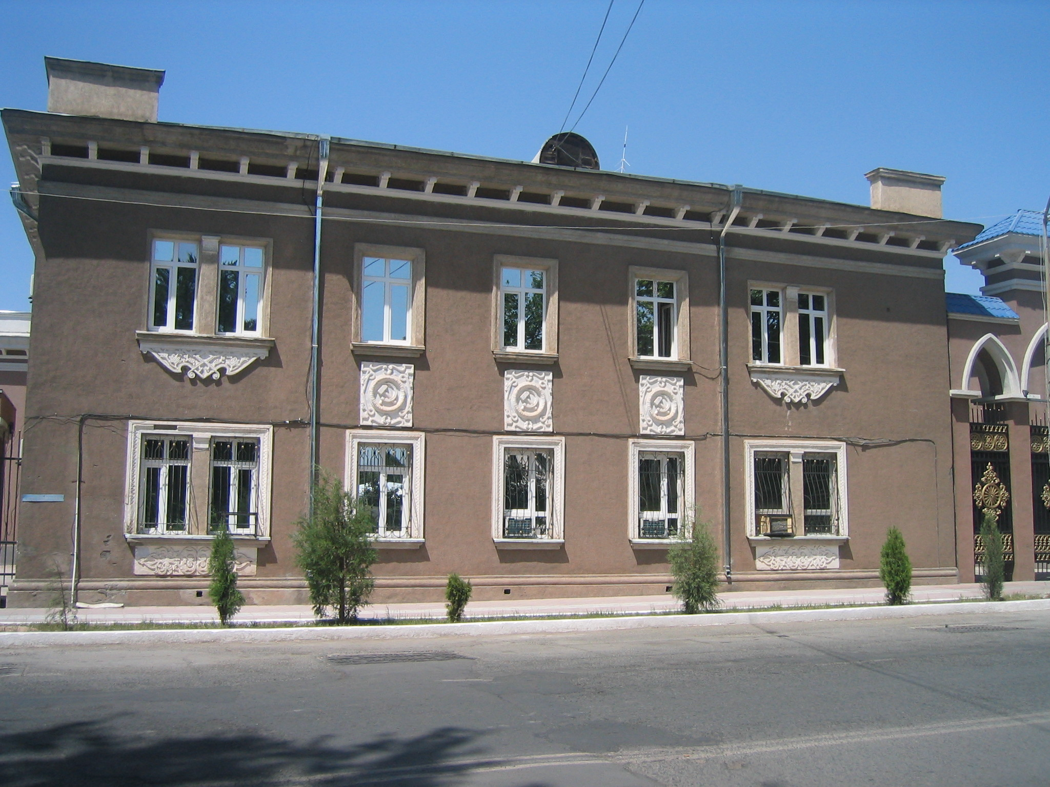 Tursunzoda district government house, Tursunzoda main street